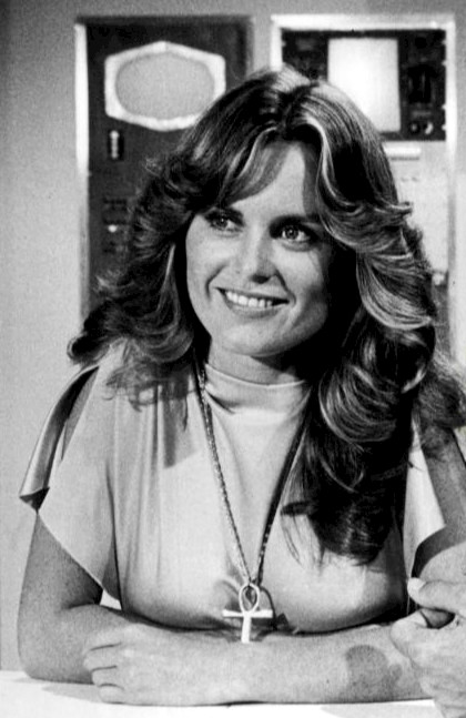 Photo of Heather Menzies as Jessica 6 from the short-lived television program Logan's Run.